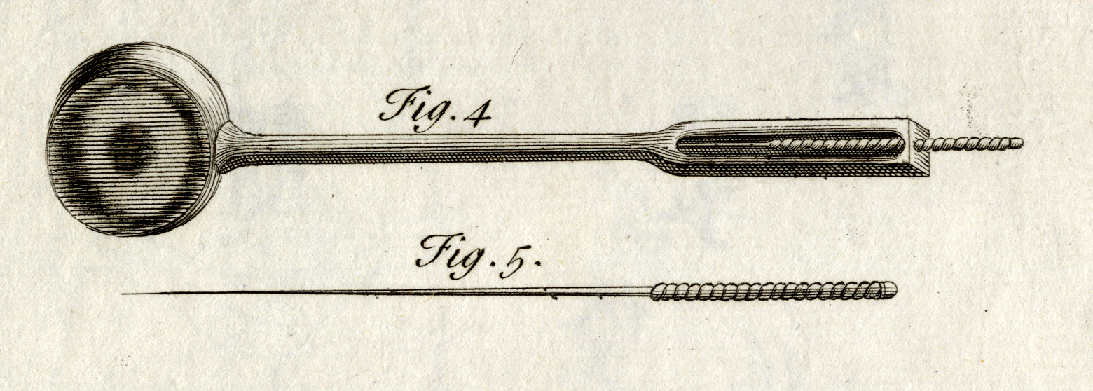 Tapping needle in Engelbert Kaempfer's History of Japan (1727)